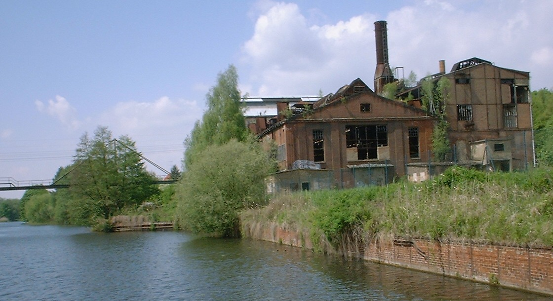 Power station Heegermühle in Eberswalde, Germany